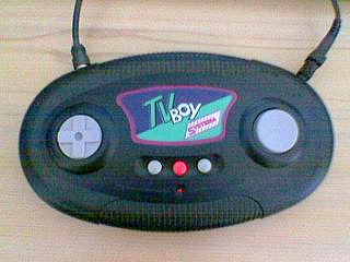 The TV Boy videogame console. (Slightly brighter and sharper version of original image).